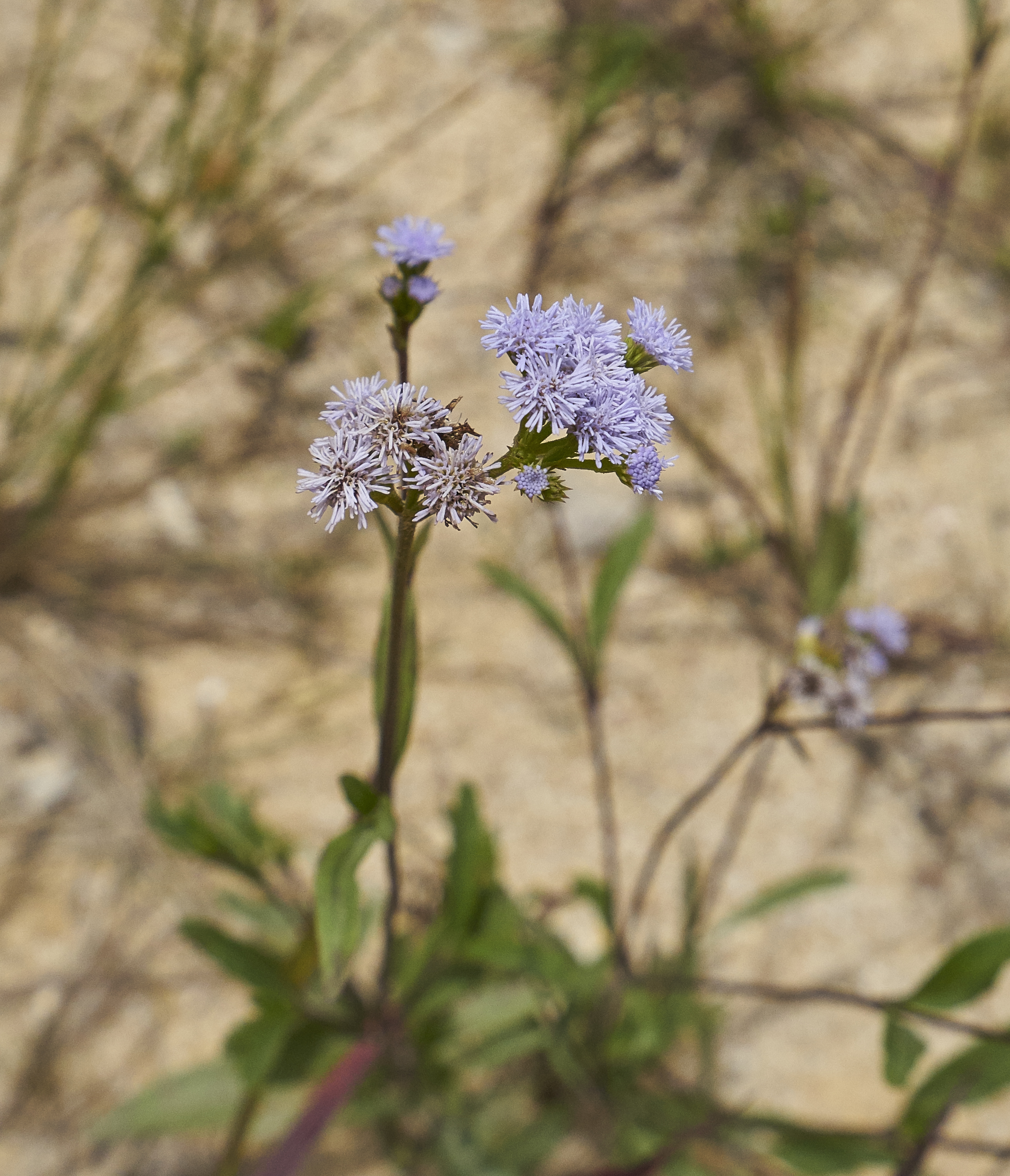 Ageratum peckii, ruderal @ Douglas da Silva Forestry Station, Mountain Pine Ridge Forest Reserve, Belize The making of this document was supported by the Community-Budget of Wikimedia Germany.